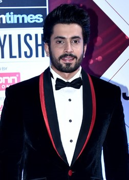 Sunny Nijar graces the HT Style Awards 2018.